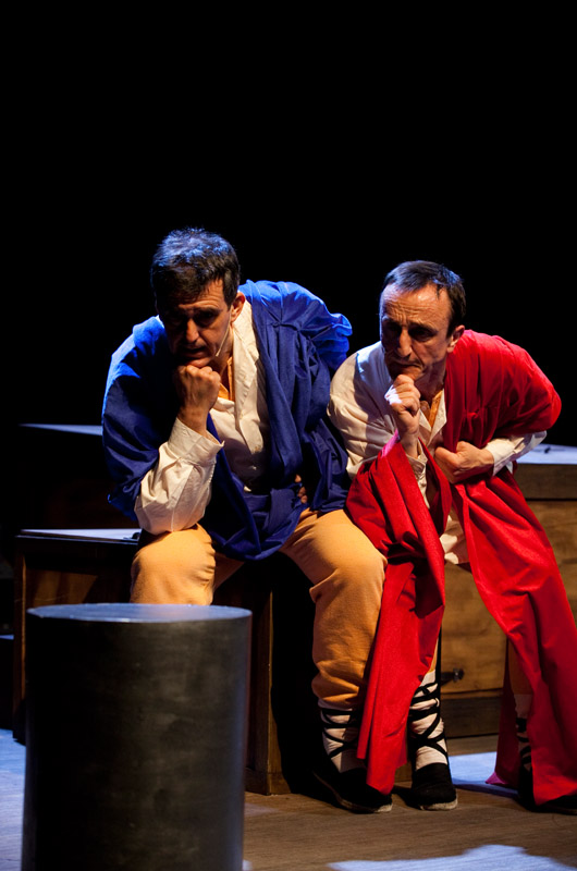 Patxo Telleria and Mikel Martinez basque actors in Lingua nabajorum